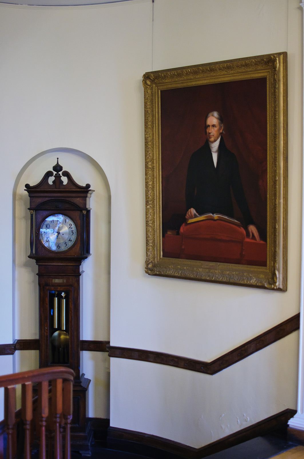 25 Beacon Street is home to Unitarian Universalist Association. On the main staircase, here is a portrait of Hosea Ballou (1771-1852), who formulated many Universalist beliefs and preached at Universalist congregations in Boston.